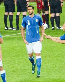 Azerbaijan-Italy, 10 September 2015, Graziano Pellè.